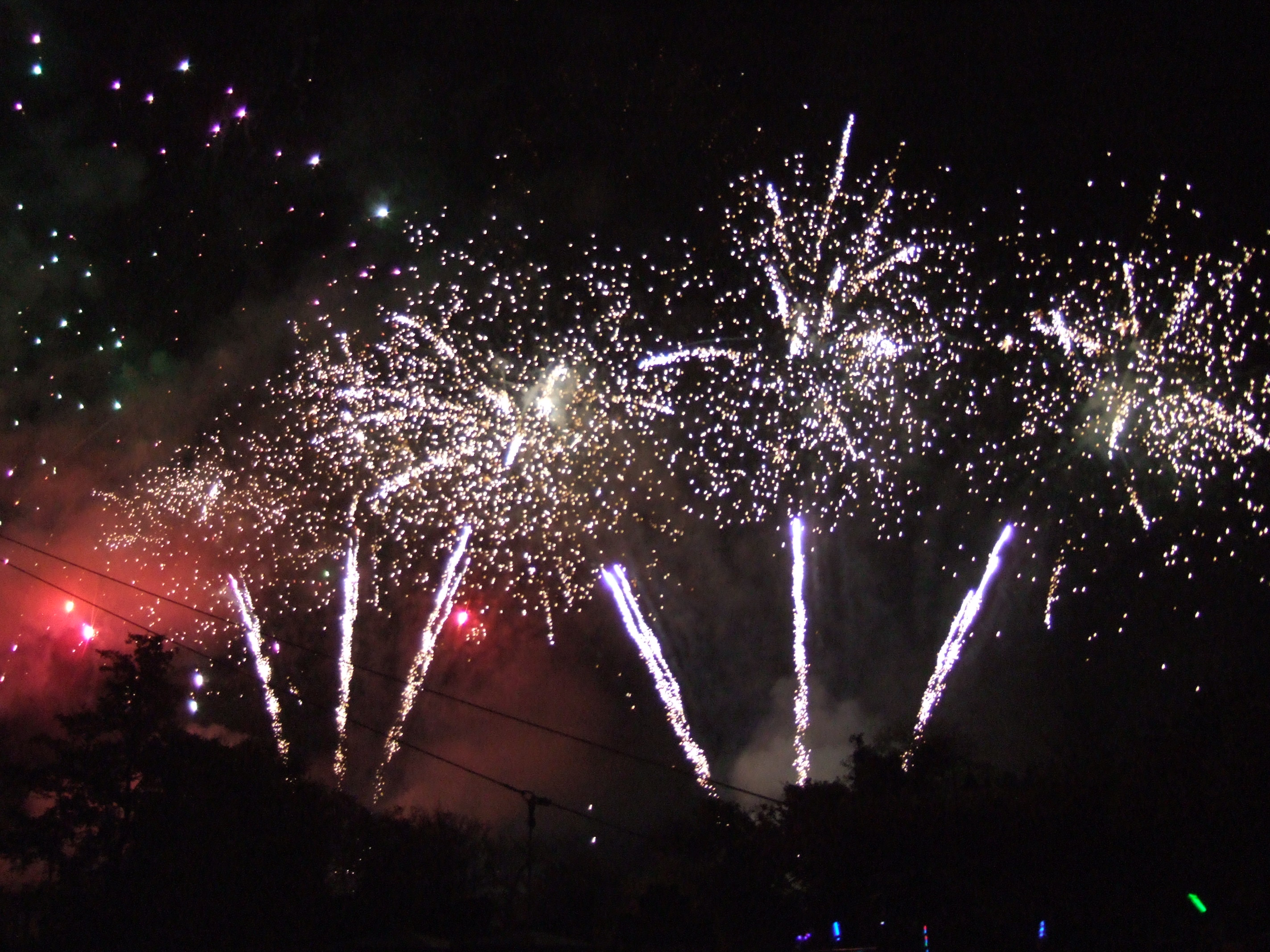 Legoland Fireworks 2007 at Legoland Windsor, Berkshire, UK